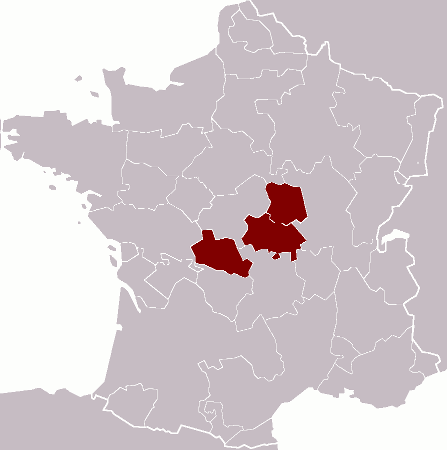 Map locating the different provinces of the Généralité de Moulins